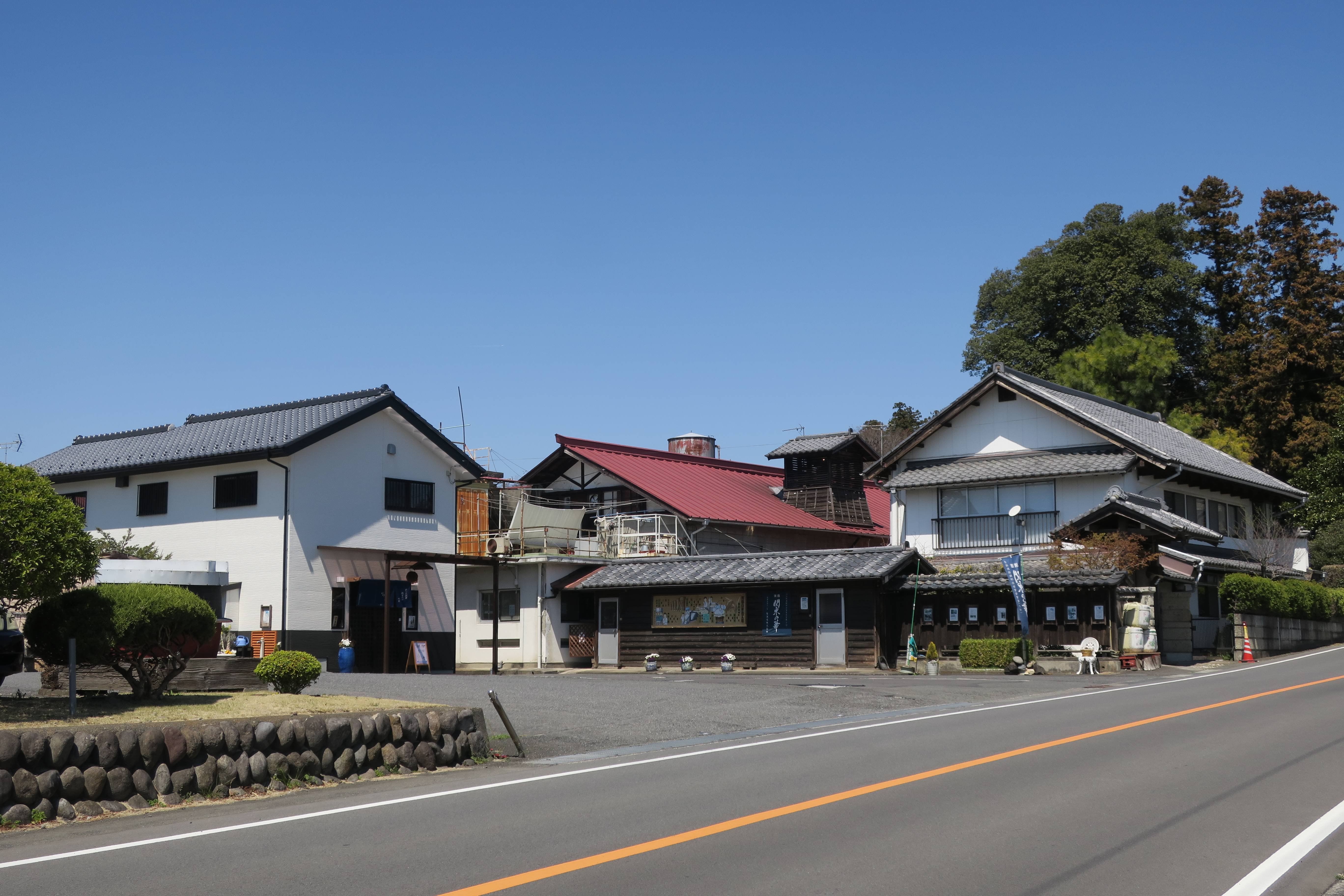 Hijiri-sake Co., Ltd. (Shibukawa, Gunma)